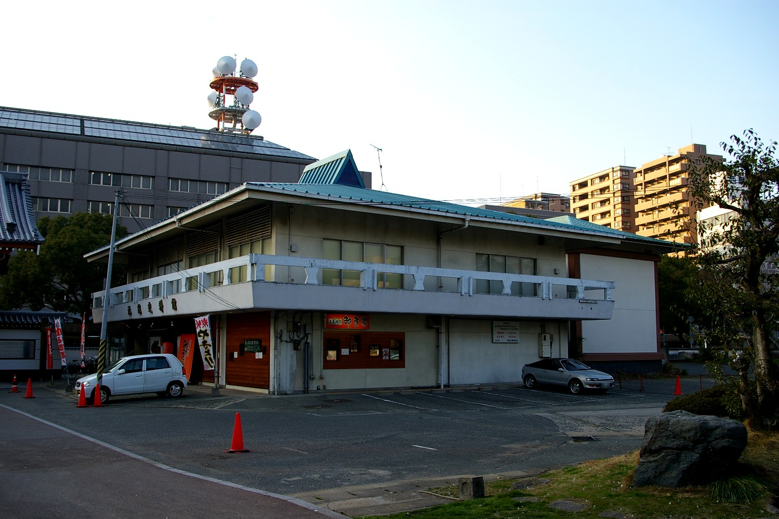 Fukuoka Azuma-ward